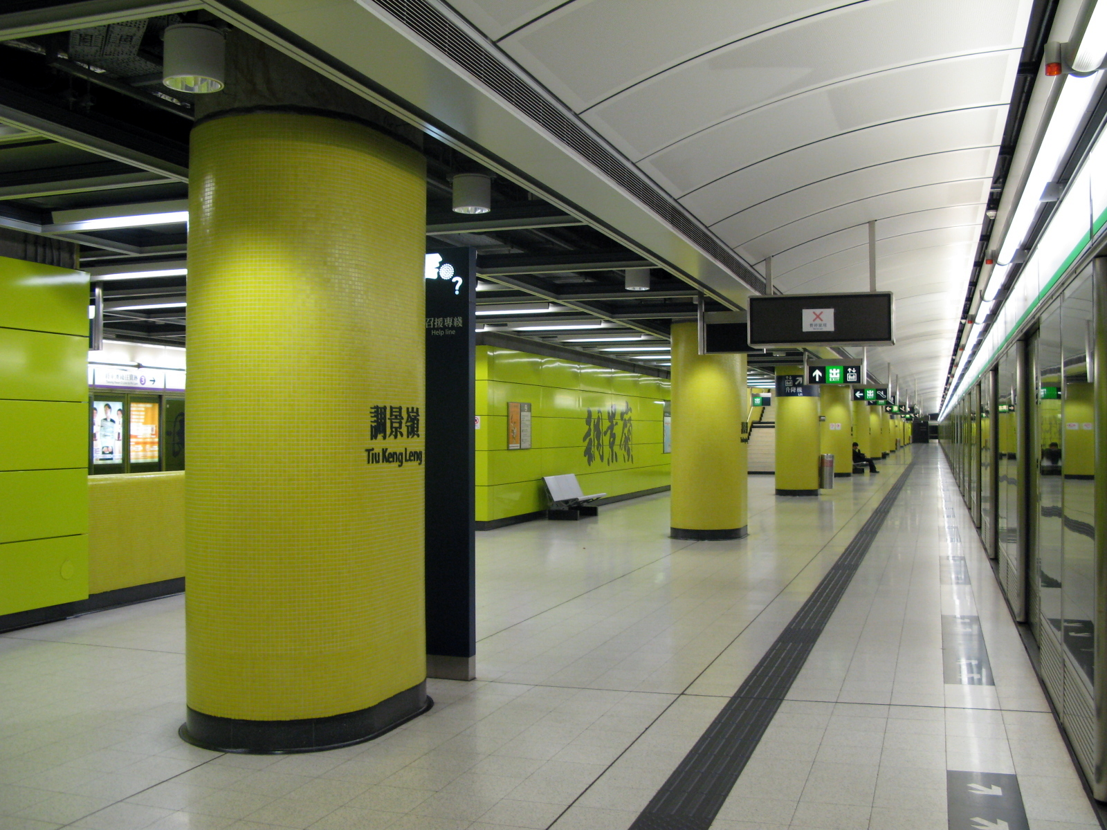 MTR Tiu Keng Leng station Platform 1